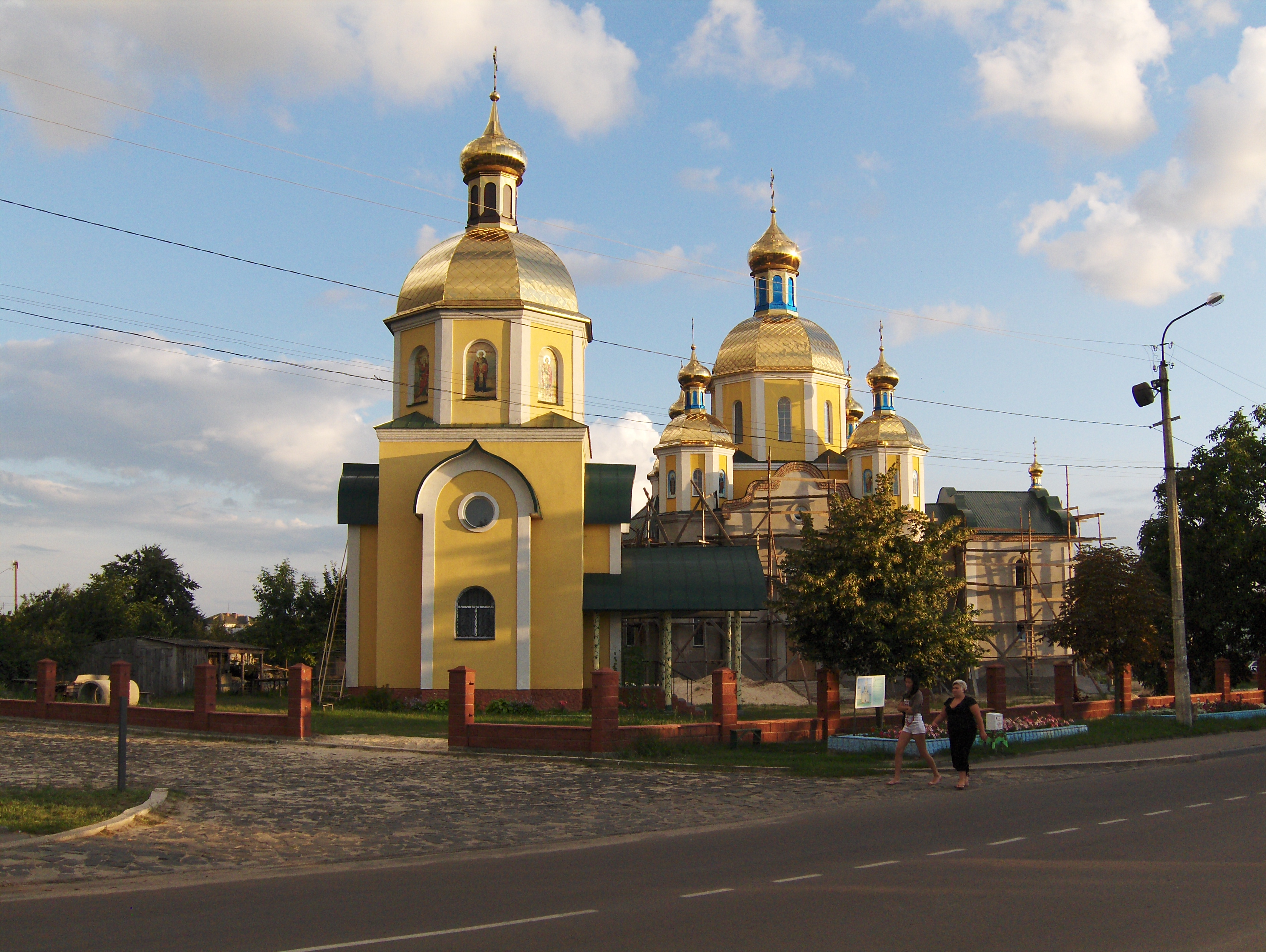 Orthodox church in Berezne, Ukraine